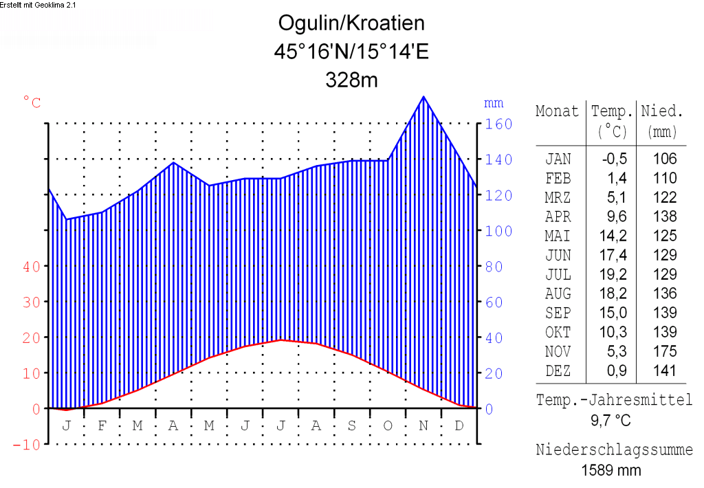 climate chart in the format by Walter and Lieth, metric, °Celsisus and millimeters, made with Geoklima 2.1